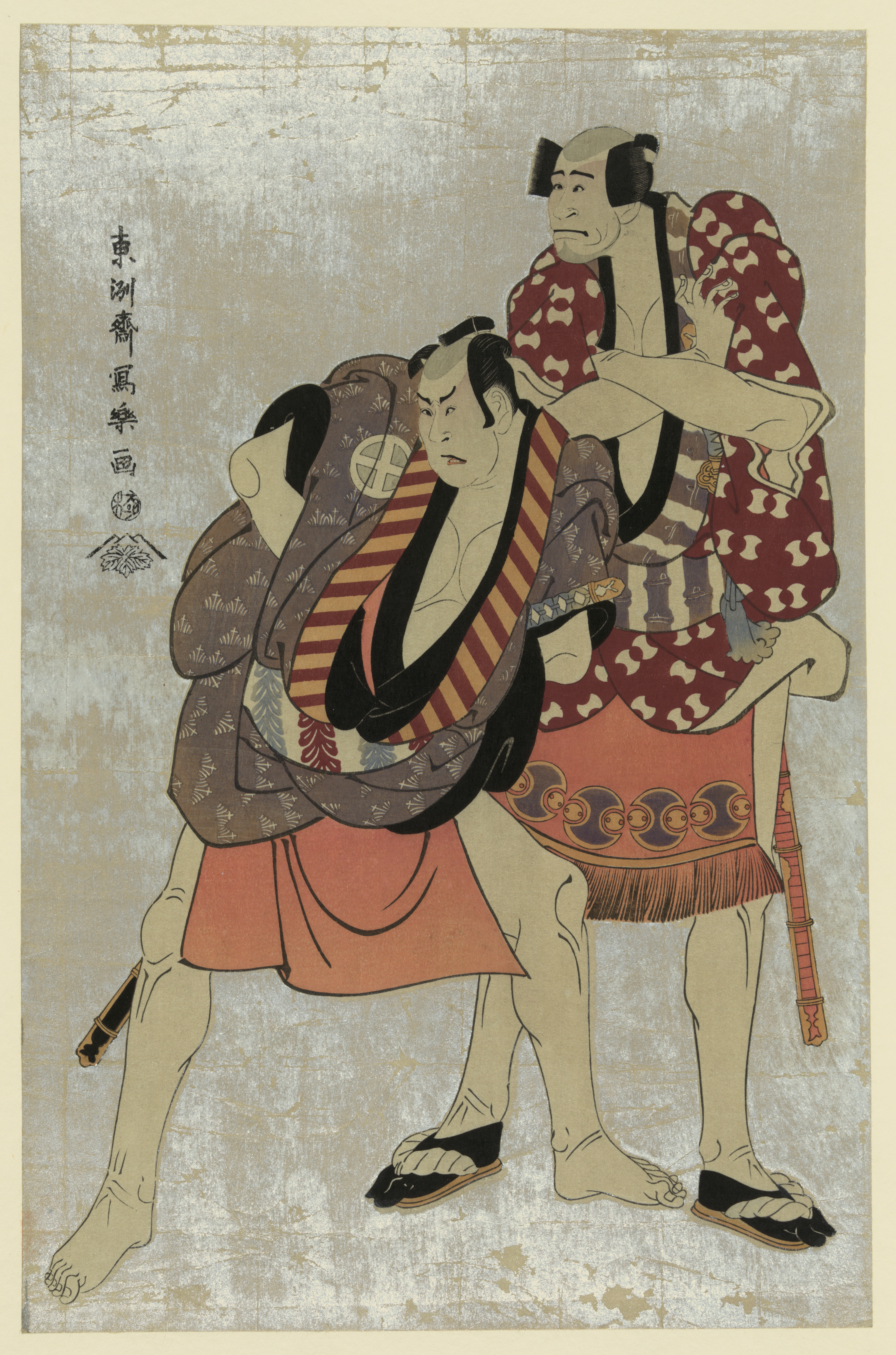 Ukiyo-e print by Tōshūsai Sharaku of kabuki actors Arashi Ryūzō I as Yakko Ukiyo Matabei and Ōtani Hiroji III as Yakko Tosa no Matabei (20th-century Adachi reprint)